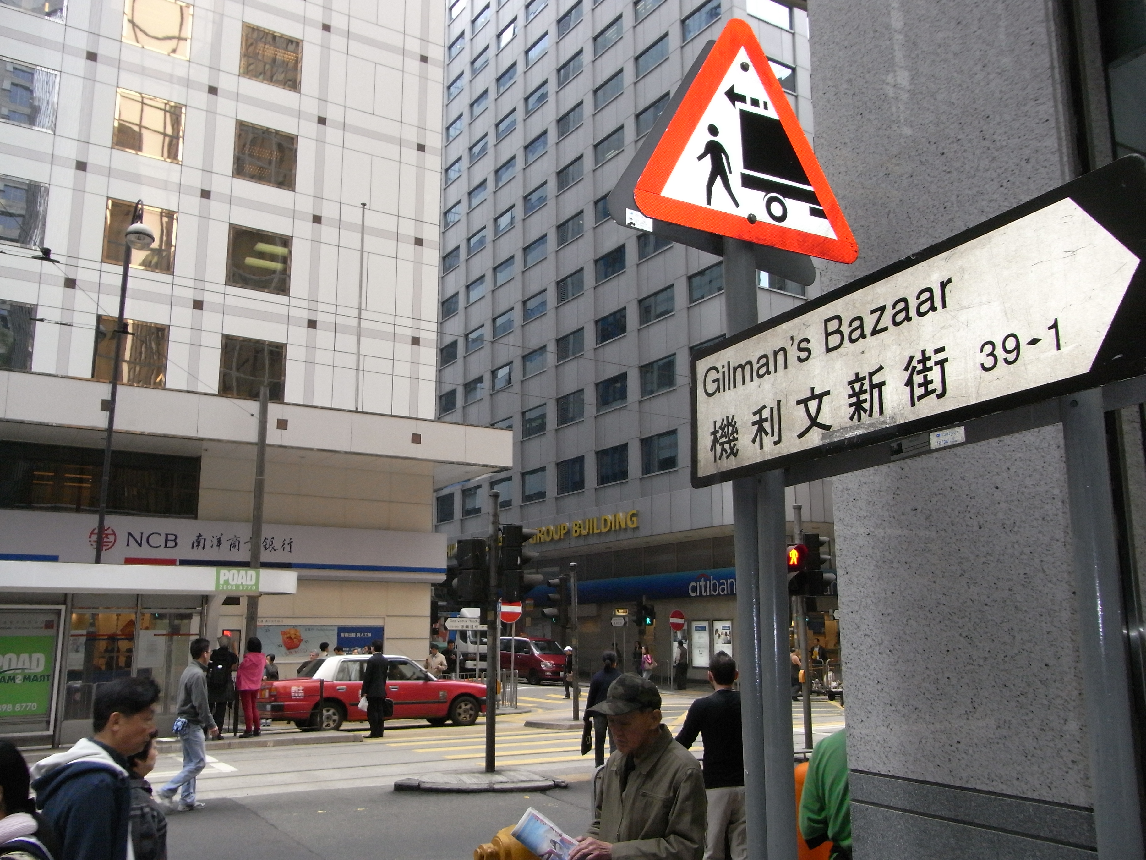 中環機利文新街 遠望機利文街